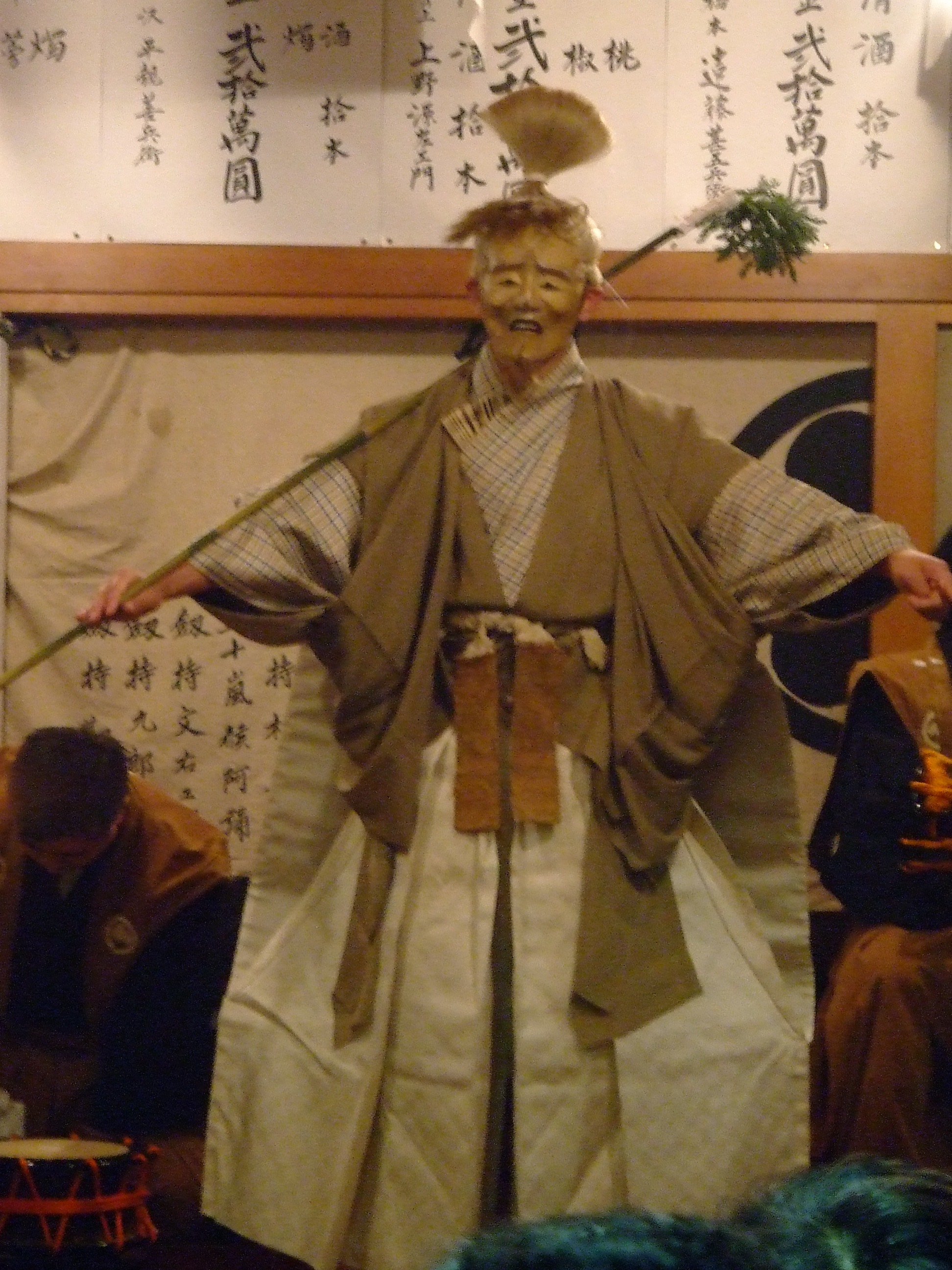 A masked character during a performance at the Kurokawa Noh Festival in Tsuruoka City, Yamagata Prefecture, Japan. I took this photo with a digital camera on 1st February 2007.